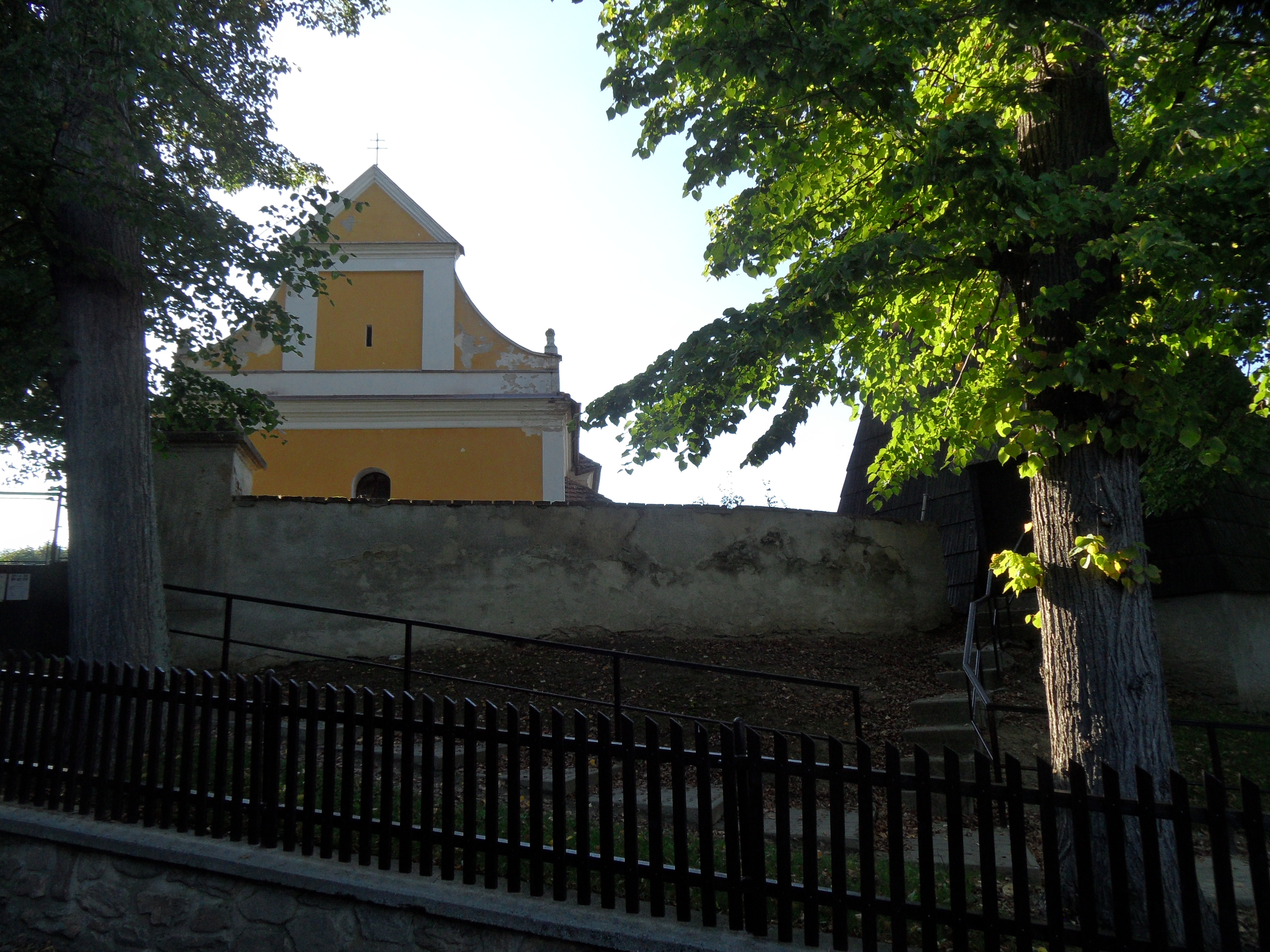 Všebořice (Loket) K. Church of Saint Giles, Benešov District, the Czech Republic.